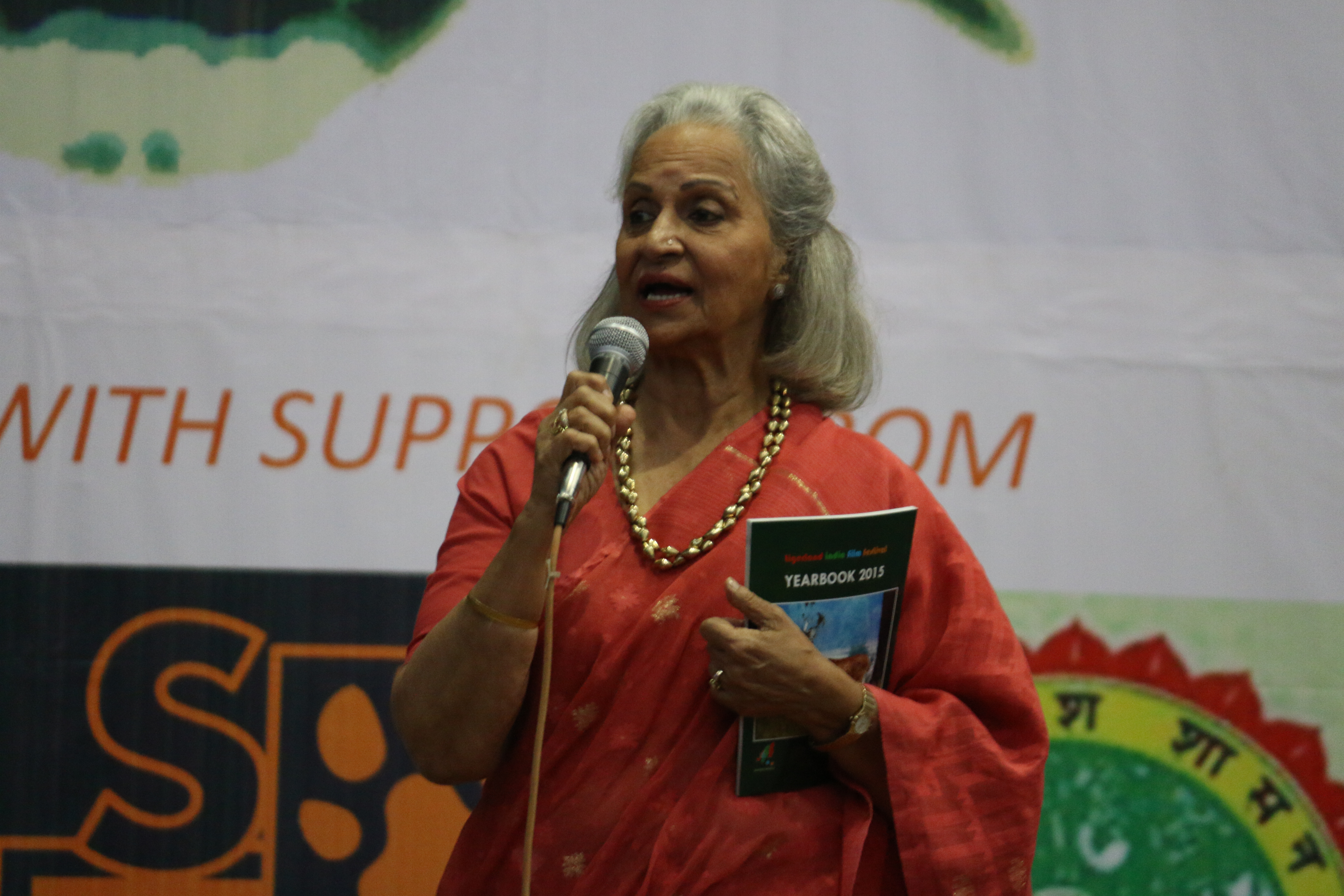 Waheeda Rehman, who is also a seasoned wildlife photographer, shares her wildlife experiences with the audience at TIFF 2015